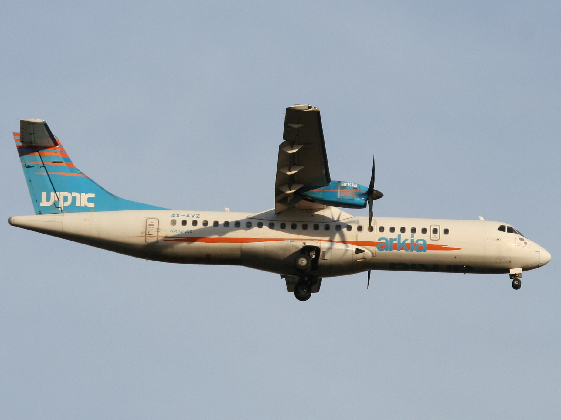 Landing on 21 at Ben Gurion International airport